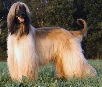 Bixente-Biju Rasath el Mahar is Dutch and German Champion, Born at 02-04-2000, more info on